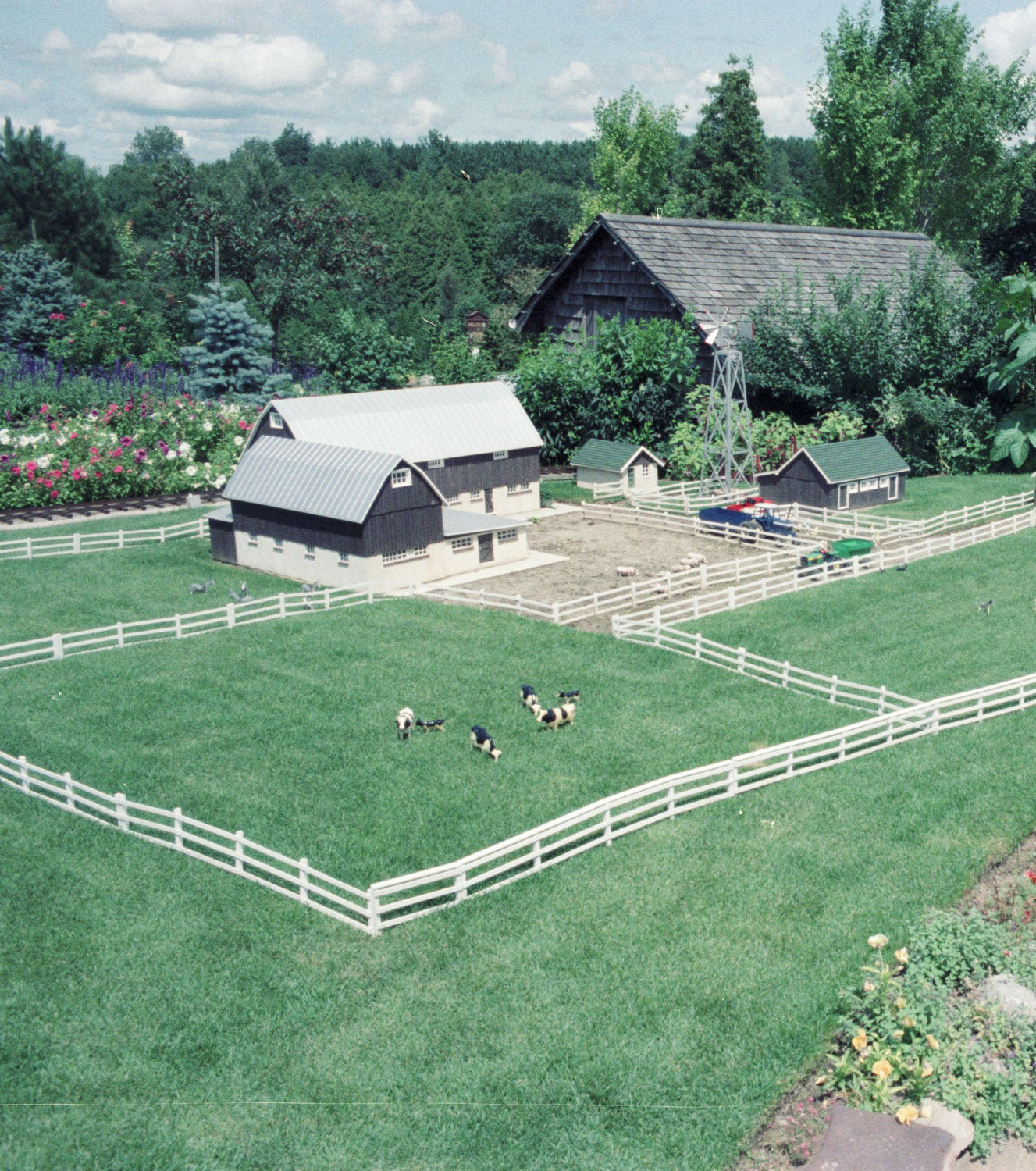 Miniature Village, Cullen Garden, in Whitby, Ontario, Canada. These were closed in January 2006 and the buildings sold.